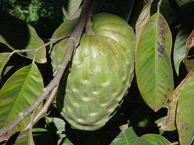 Cherimoya (Annona cherimola Mill.) fruit cultivated in Pedra Bela, São Paulo, Brazil